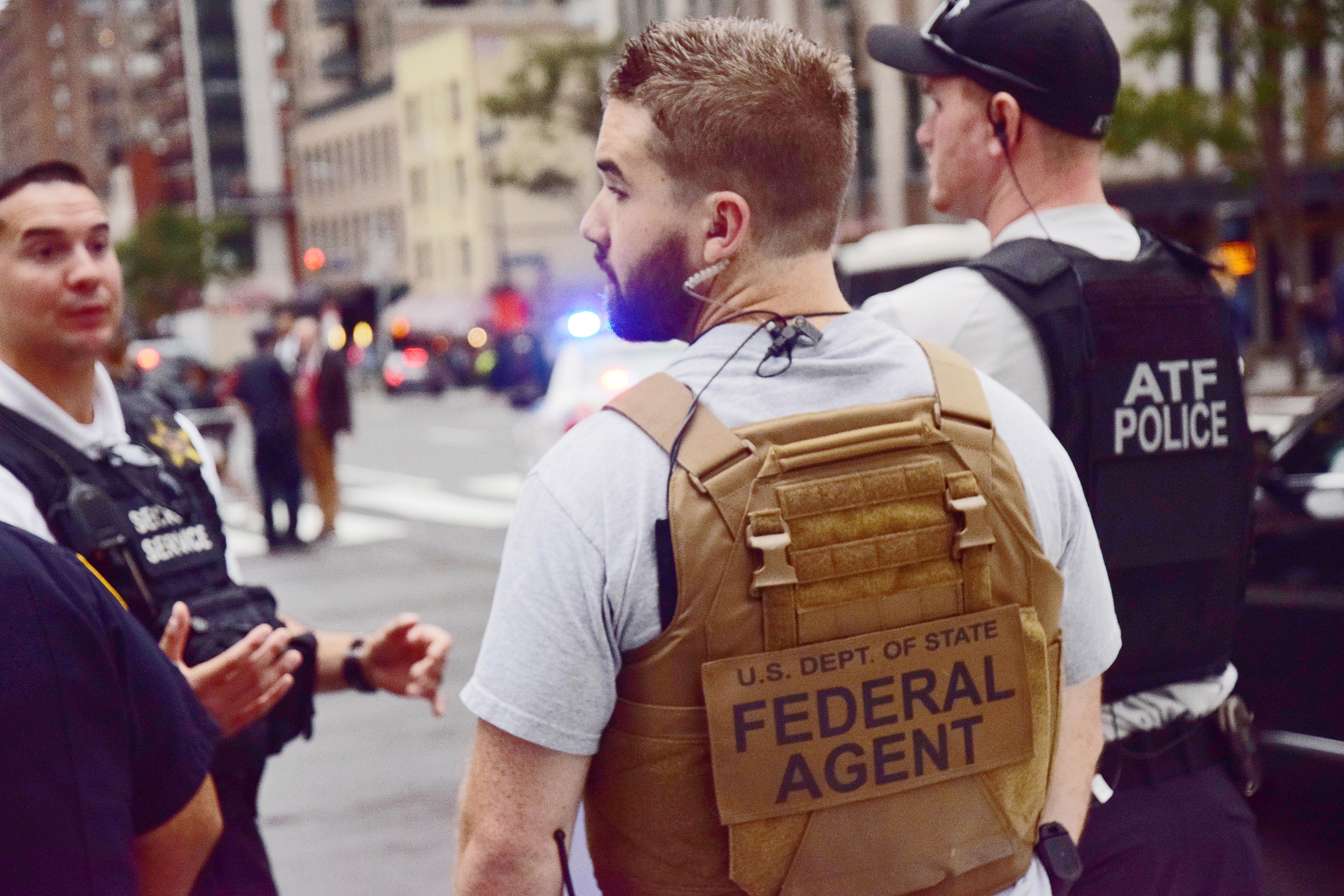 DSS special agents work alongside the New York City Police Department, the United States Secret Service, and other federal law enforcement agencies to coordinate secure motorcade arrivals for international dignitaries attending the United Nations General Assembly in New York on September 19, 2017 when President of the United States, Donald Trump, addressed the Assembly.